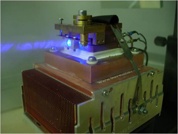 Blue laser diode - a testing station in Institute of High Pressure Physics, Warsaw, Poland